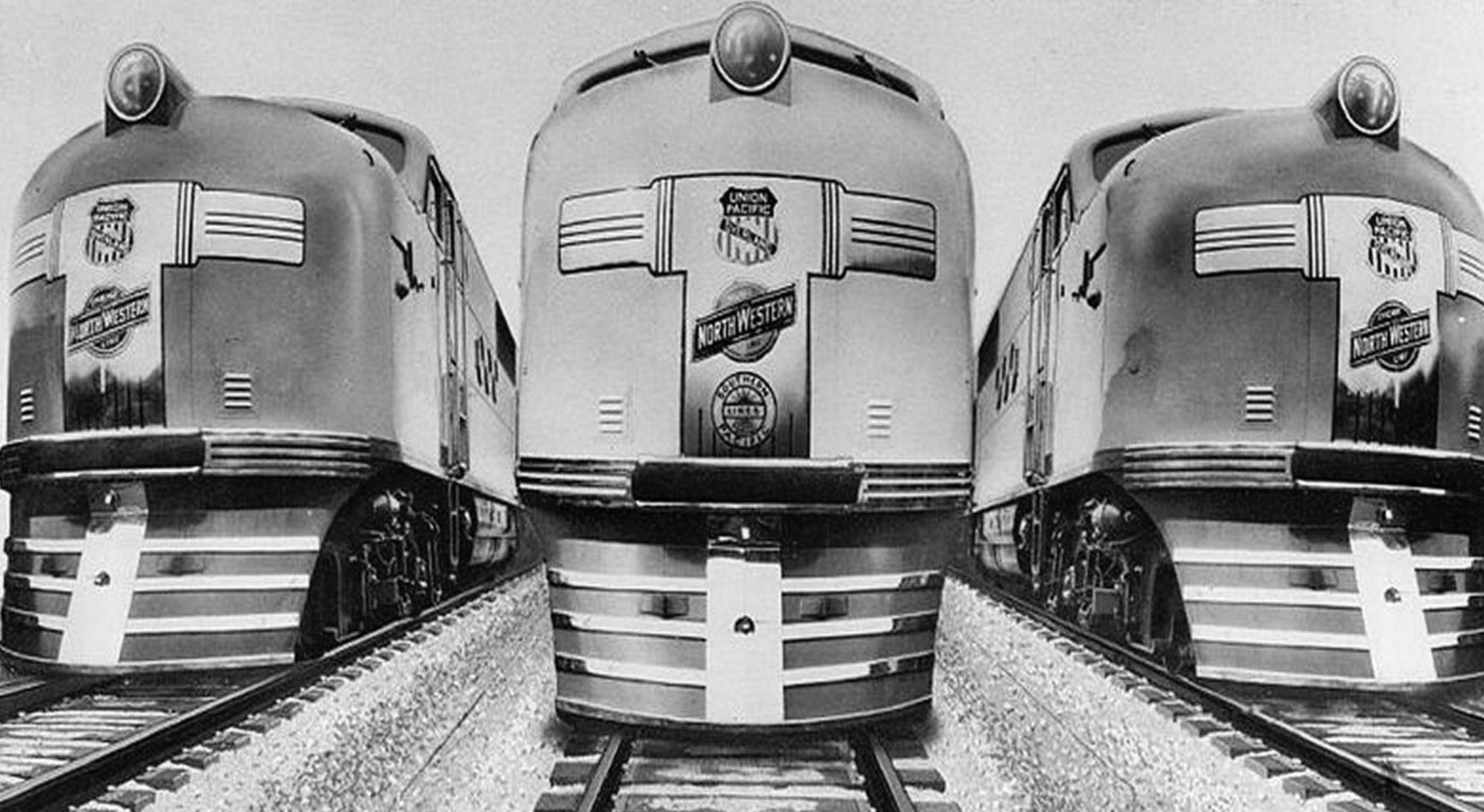 Photo of three Union Pacific streamliners that traveled cross country. The locomotives on the right and left were jointly owned by Union Pacific and the Chicago and North Western Railway. The one in the middle was owned by Union Pacific, Chicago and North Western and Southern Pacific.